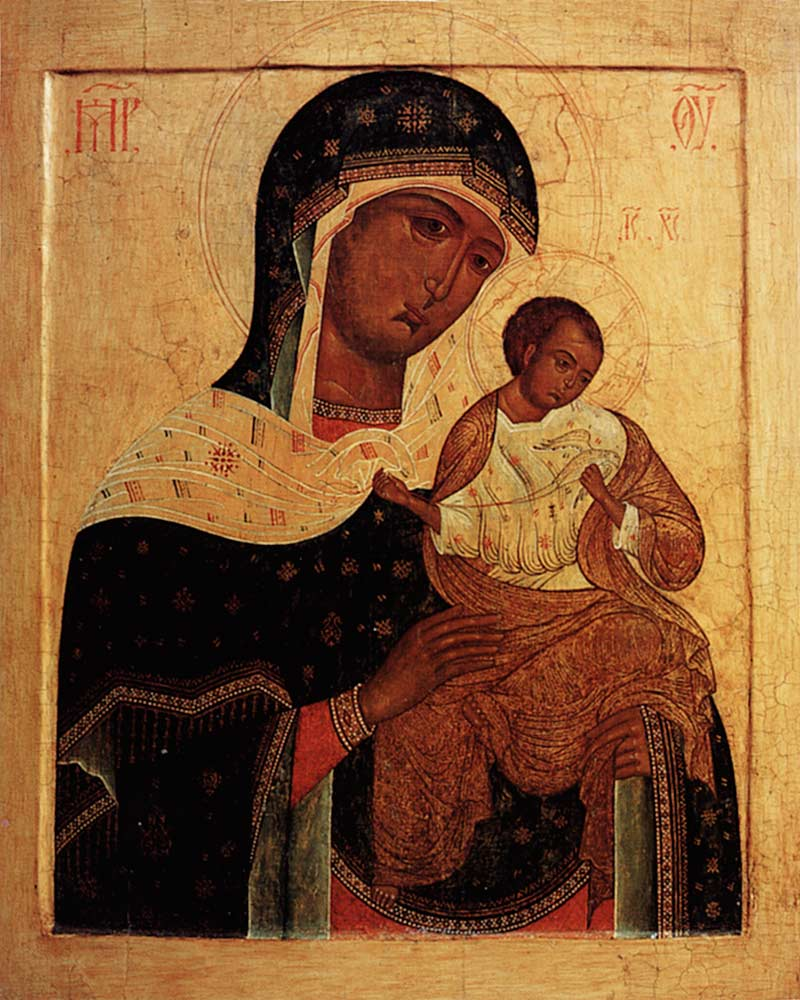 Konevskaya (Golubitskaya) icon of the Mother of God